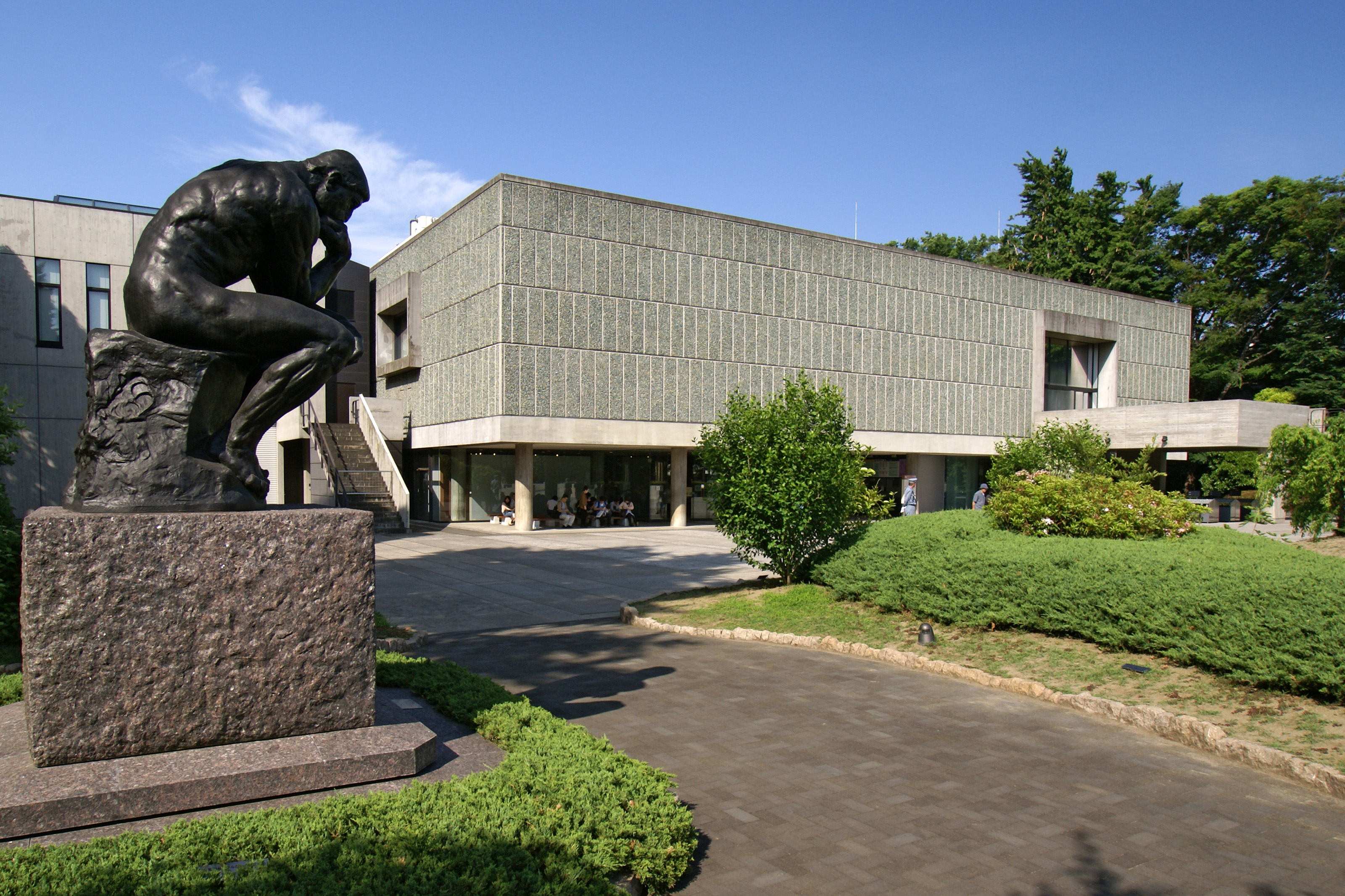 National Museum of Western Art in Ueno, Taito-ku, Tokyo, Japan